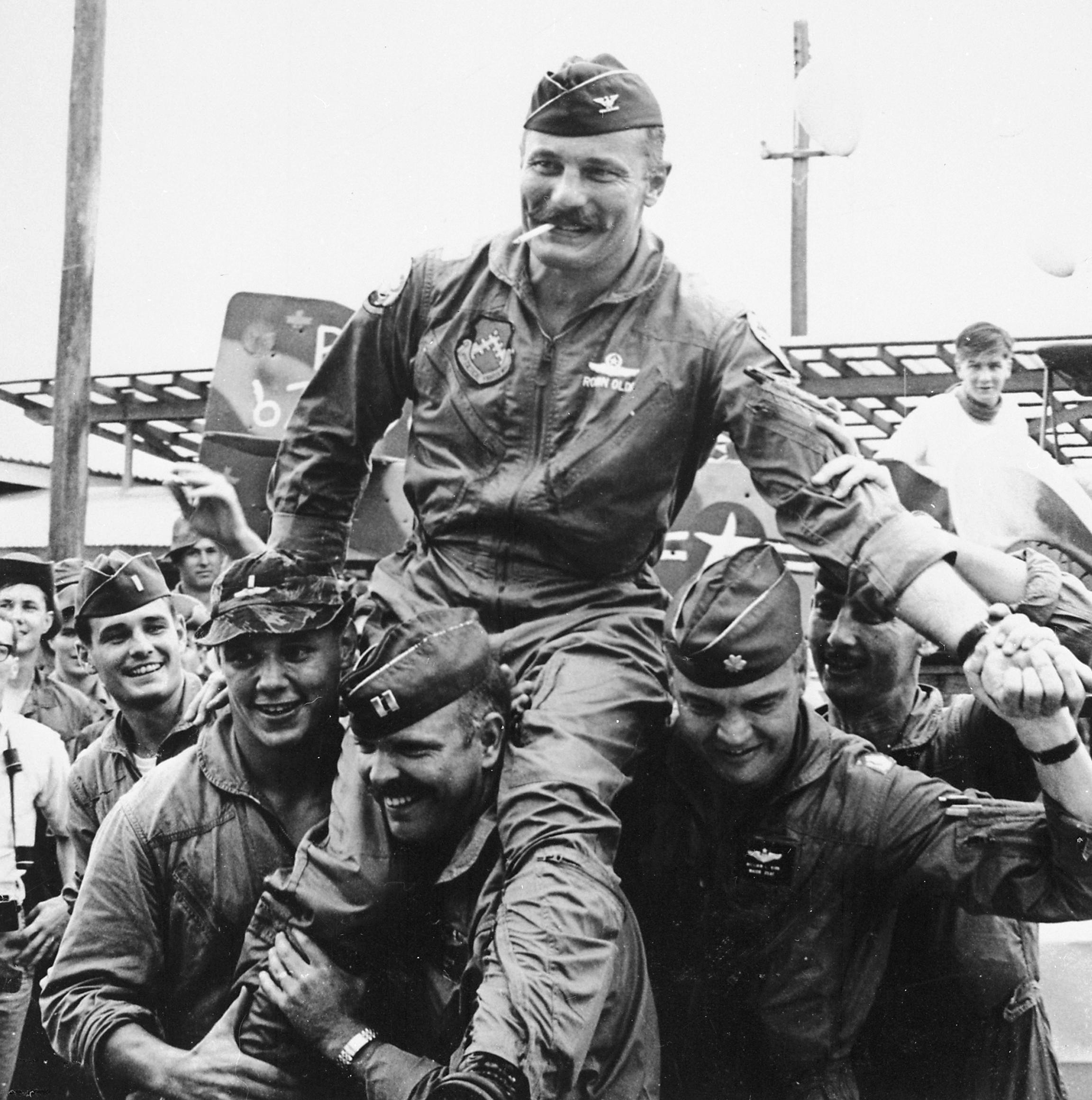 "Wolfpack" aviators of the 8th Tactical Fighter Wing carry their Commanding Officer, Colonel Robin Olds, following his return from his last combat mission over North Vietnam, on 23 September 1967. This mission was his hundredth "official" combat mission, but his actual combat mission total for his tour was 152! COL Olds boldly led the 8th TFW Wolfpack from September 1966 through September 1967, as it amassed 24 MiG victories, the greatest aerial combat record of an F-4 Wing in the Vietnam war. Following, COL Olds would assume the position of Commandant of Cadets at the U.S. Air Force Academy on December 1, 1967.